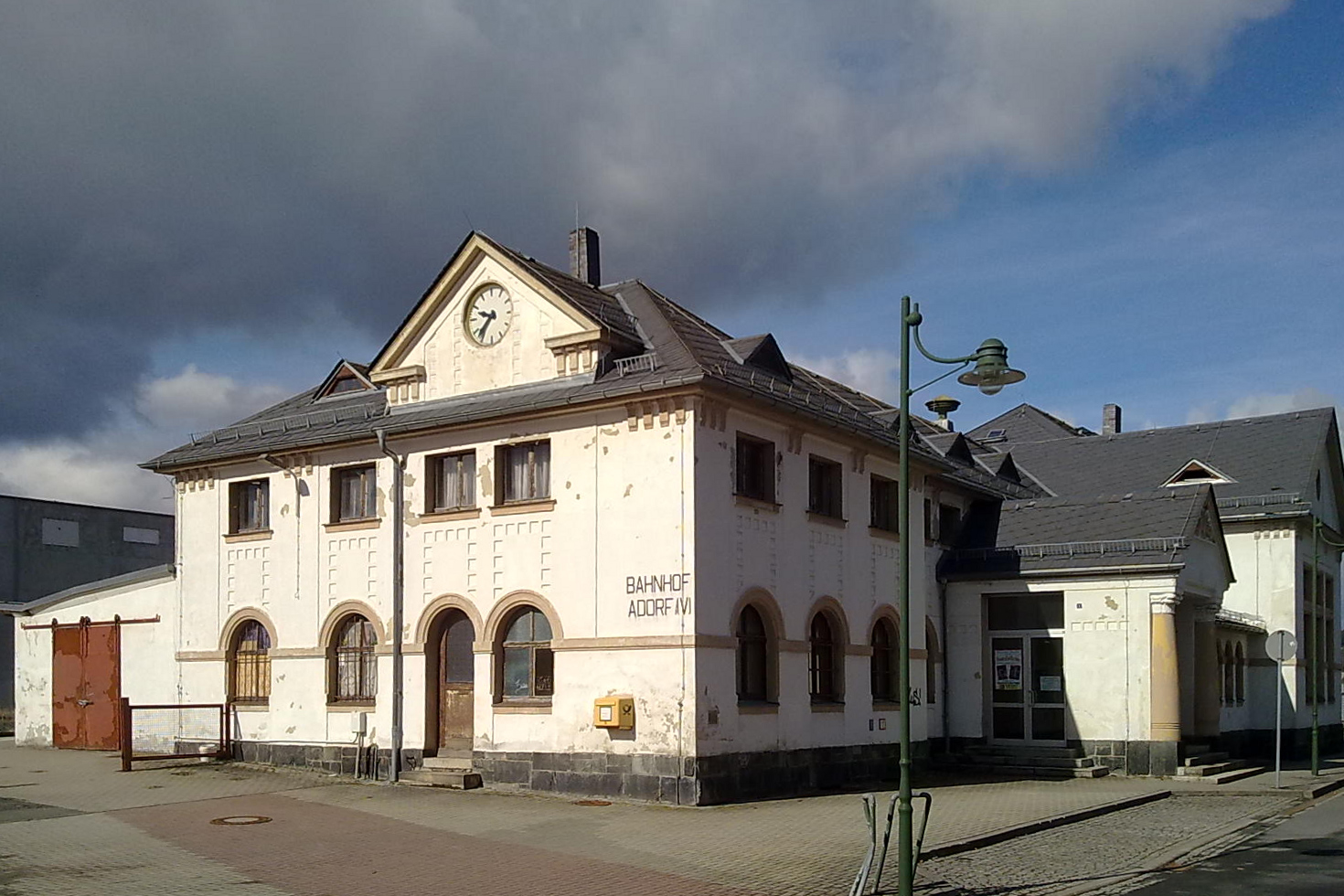 Station building at Adorf / Vogtland